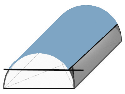 Segmentbogentonne